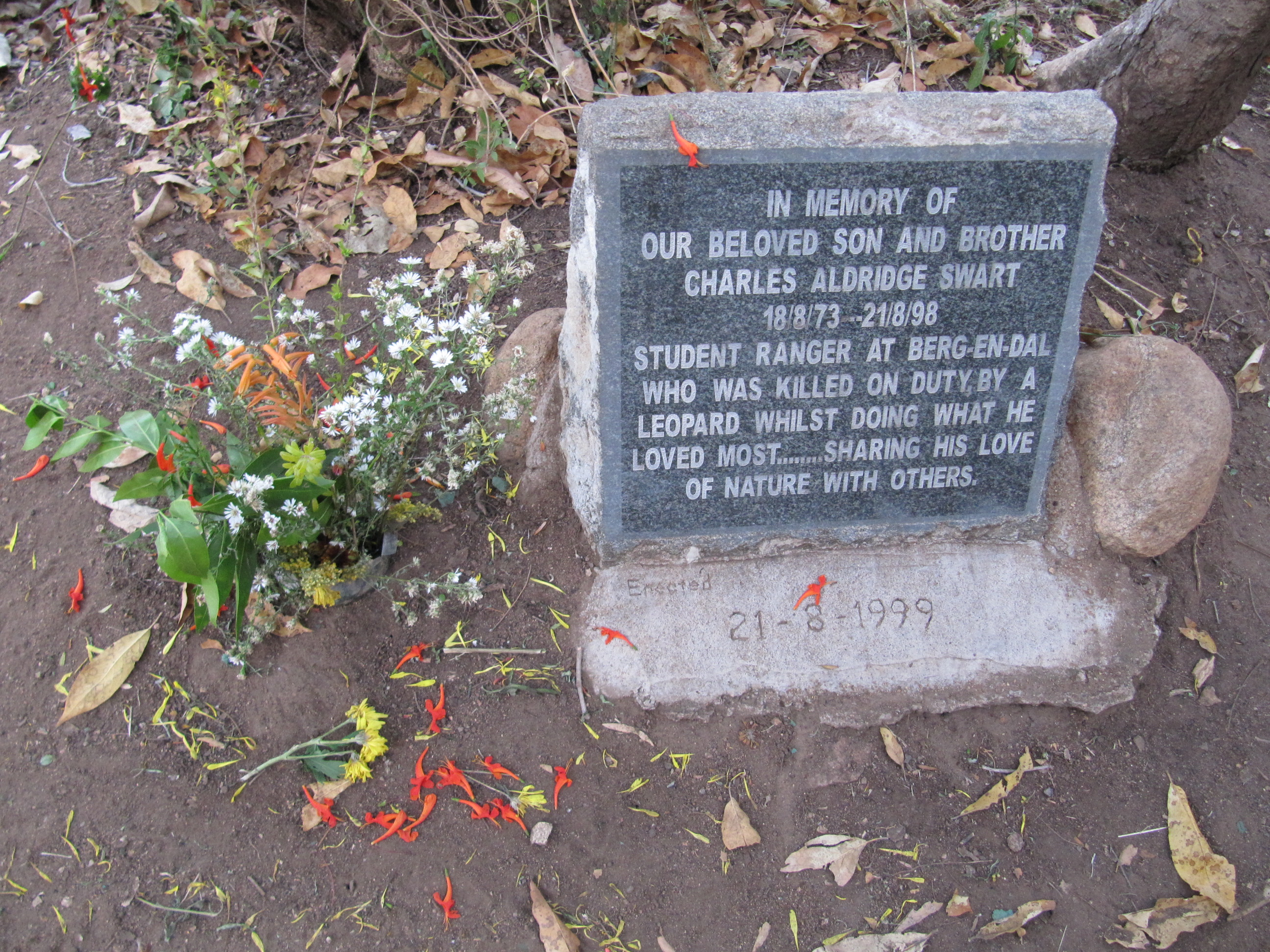 Memorial plaque of Charles Aldridge Swart who was killed by a leopard in the Kruger National Park, South Africa.